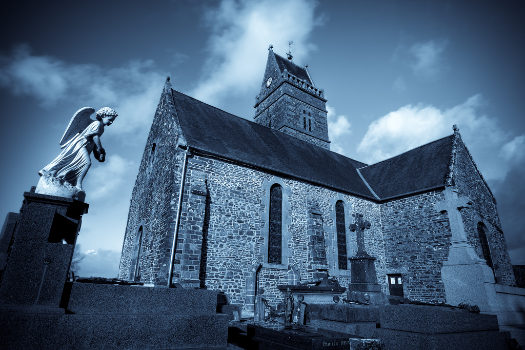 Church of Saint-Jean-Baptiste in Champrepus (France) - 1300 AC